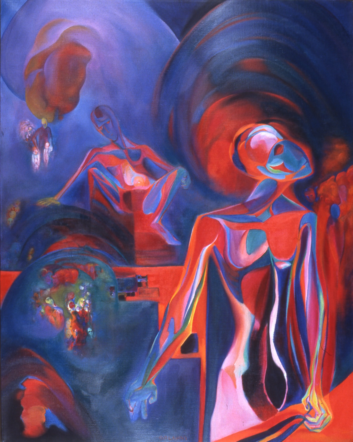 Concentration Camp 1, by Berta Rosenbaum Golahny, oil on canvas, 30" x 24"